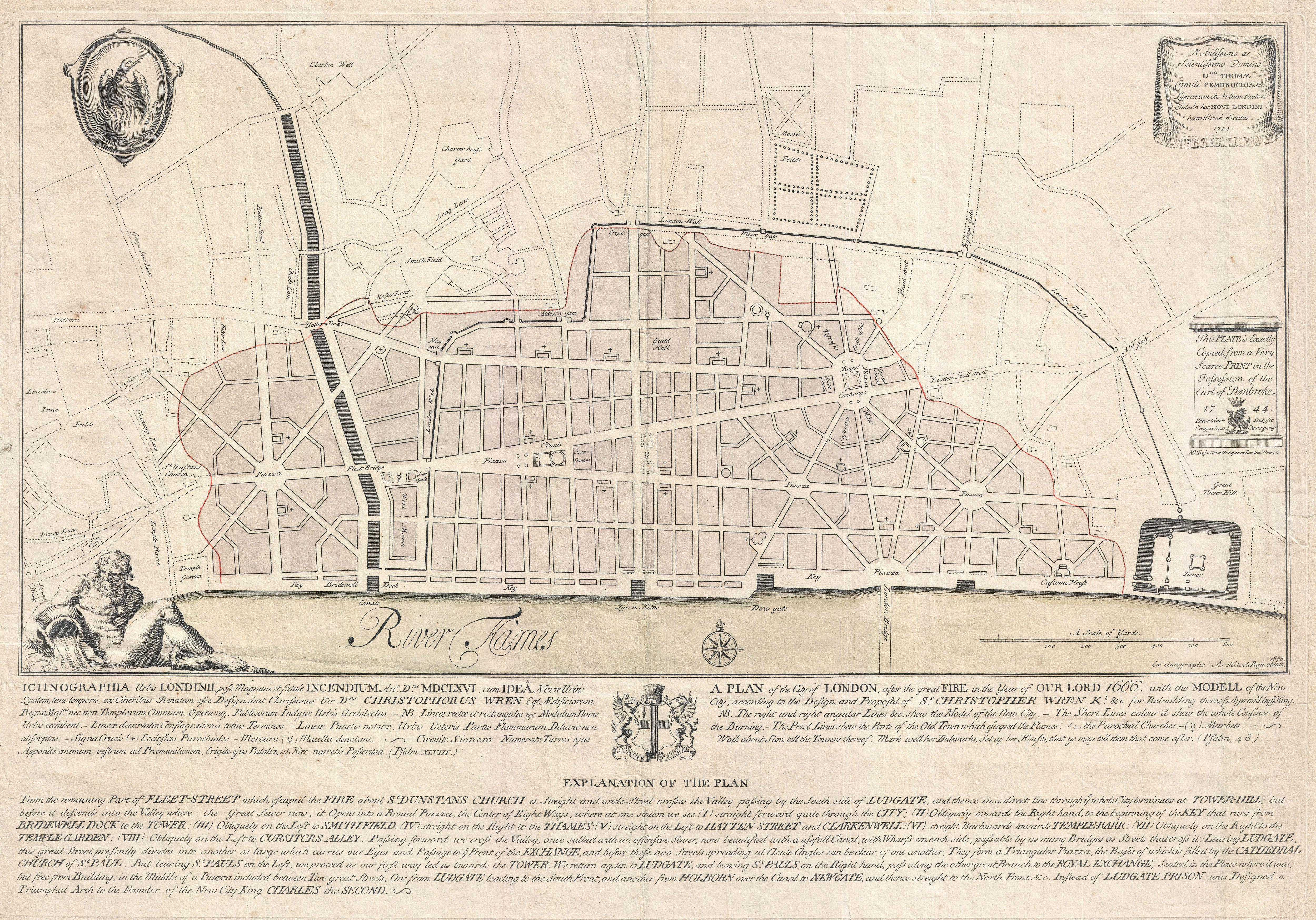 An extremely scarce 1744 map of London showing Sir Christopher Wren's plan for reconstructing the city following the 1666 Great Fire of London. In 1666 the Great Fire swept through the old Roman portions of London, laying waste to most of the original walled city. Christopher Wren, a well known architect of the period was quick to respond to the disaster as a opportunity to dramatically redesign and modernize London's center. Wren having been schooled in Paris envisioned an elaborate classically influenced reconstruction of the city with broad avenues meeting in a series of Piazzas. Despite, or perhaps because of, Wren's promptitude in producing a plan for a major post-fire reconstruction, his plan exhibits a number of dramatic errors. Wren did not take the city's topography into account and consequently much of the this plan is unfeasible. Despite claims to the contrary in the document itself, Wren's plan was never seriously considered by either the King or the Parliament. Today Wren's original 1666 plan is lost. This version was drawn in 1744 by the once fashionable engrave P. Fourdrinier, who claims to have replicated exactly a scarce 1724 original owned by the Earl of Pembroke. This map covers London along the north side of the Thames River from Strand Bridge to Great Tower Hill. Shows Wren's detailed reconstruction plan, along with the regions originally destroyed by the Great Fire. Identifies the proposed locations of parochial churches, markets, piazzas, bridges and warehouses. A vignette in the lower left quadrant depicts Thamesis, the river god for which the Thames River is named. The upper left quadrant bears the image of a phoenix, suggesting that, like the mythical bird, London too would rise from its own ashes and be reborn in fire. The lower quadrants of this plate include the map's title in both English and Latin as well as a detailed Explanation of the Plan. This plan is highly uncommon and rarely appears outside of institutional collections.